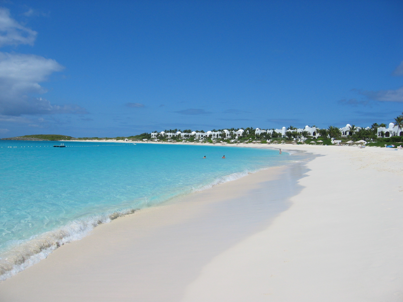 View of the beach at the Cap Juluca resort, Anguilla (A British Overseas Territory) Original description: probably one of the nicest beaches we've ever been too...